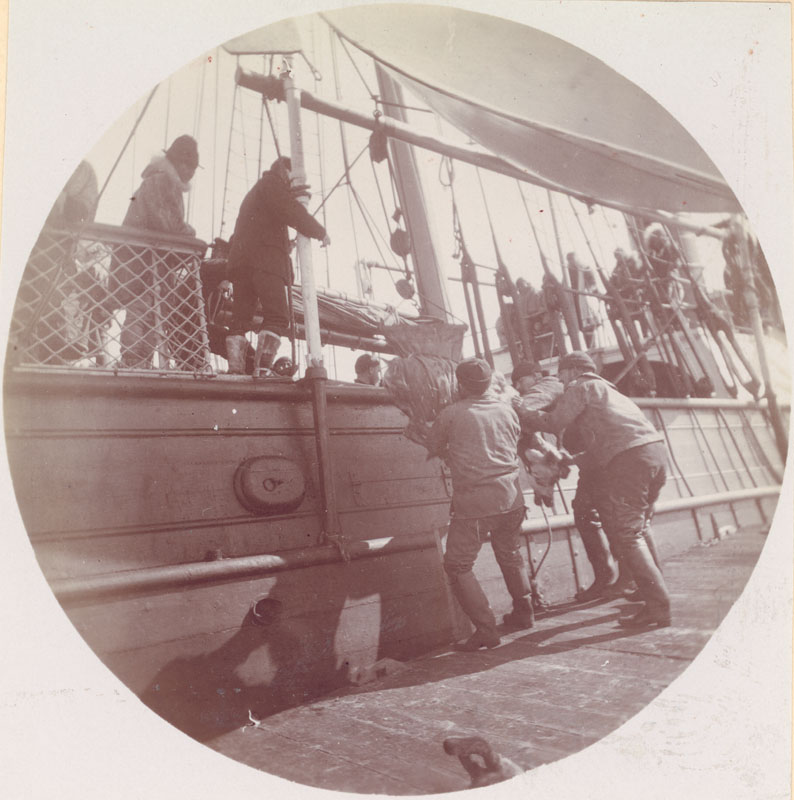 The picture is of men loading reindeer onto the U.S.S. Bear, c. 1896